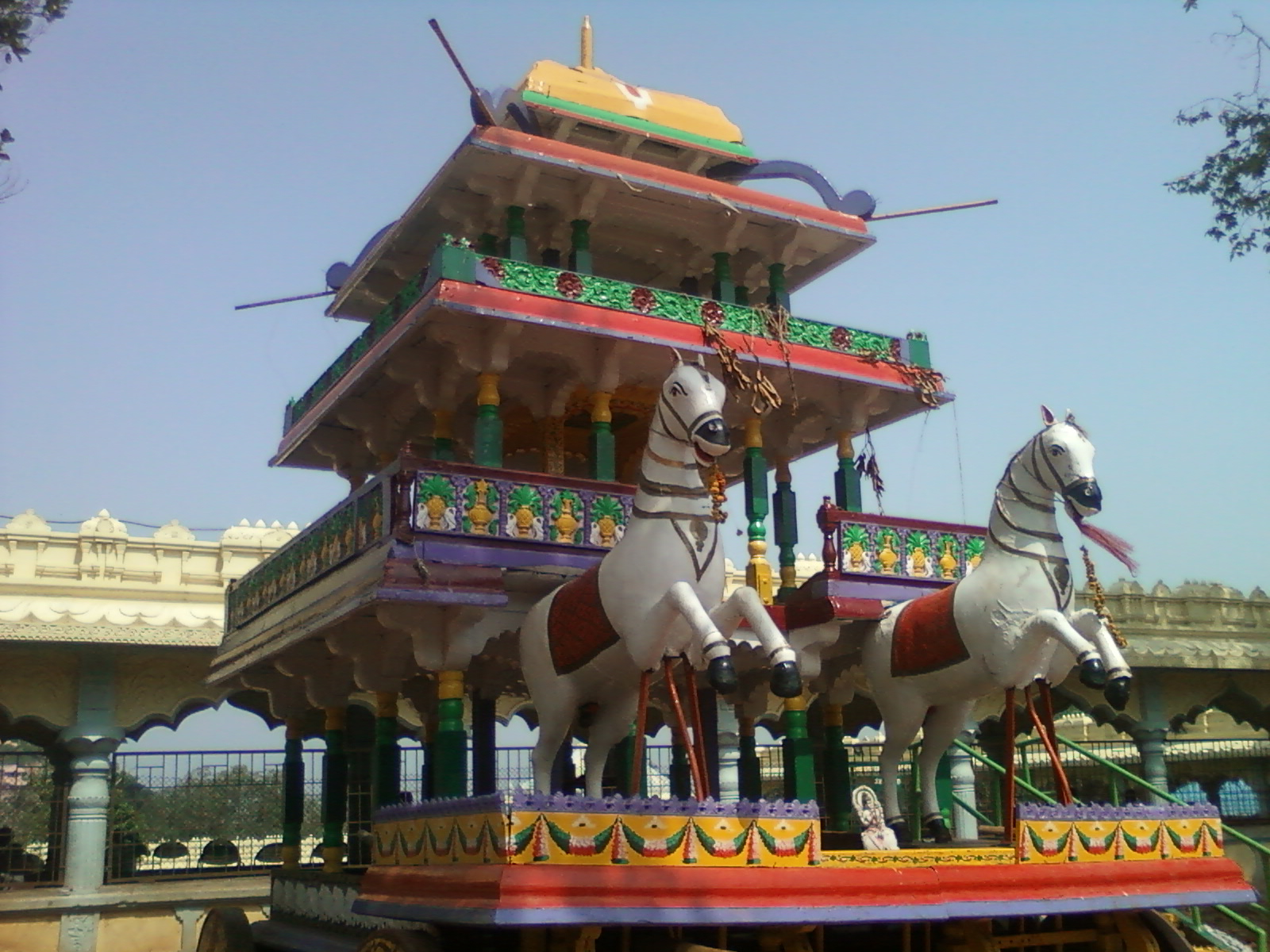 A wodden chariot near Simhachalam Temple